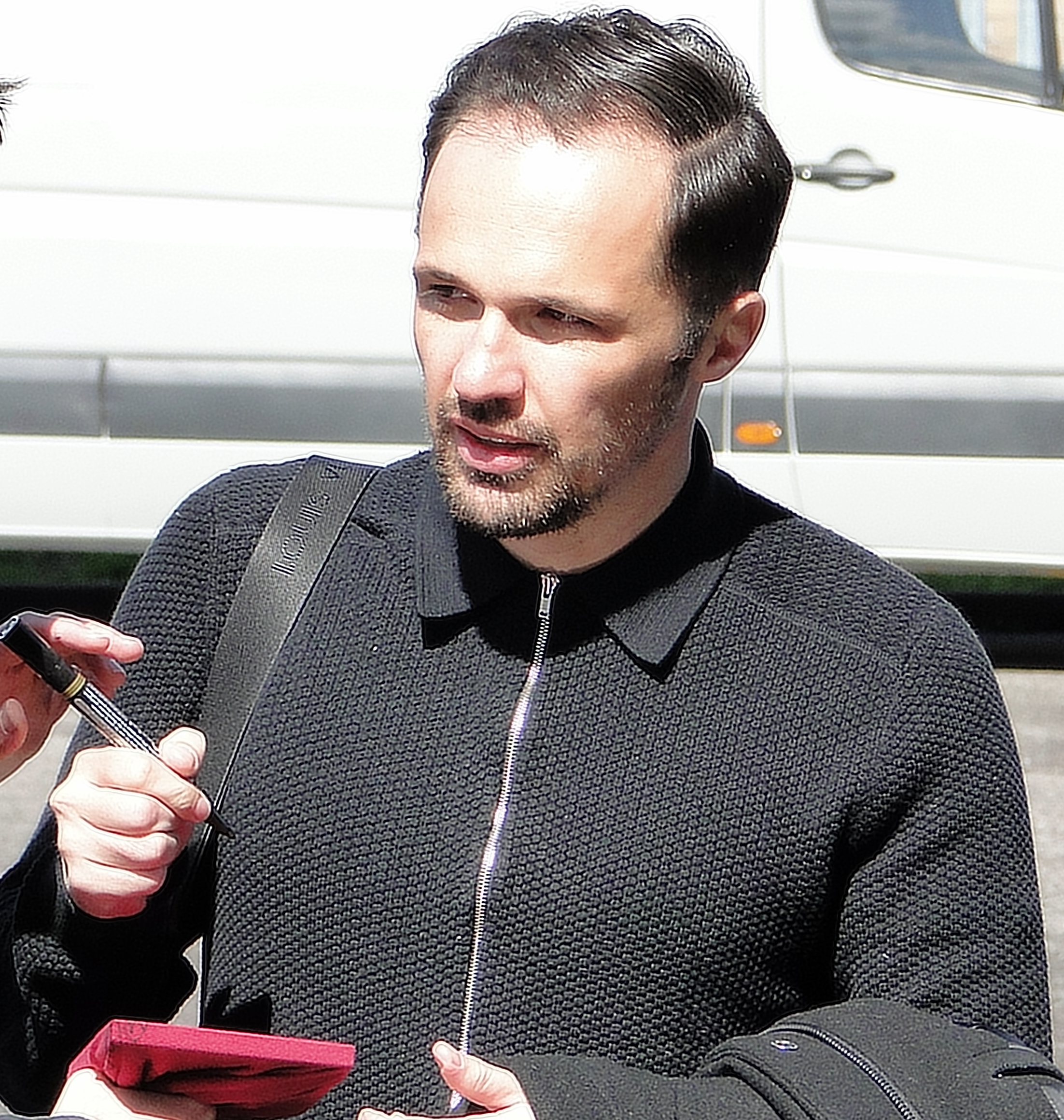 Former West Ham and Stoke player, Matt Etherington sign autographs at the Boleyn Ground before a match between West Ham and Stoke City